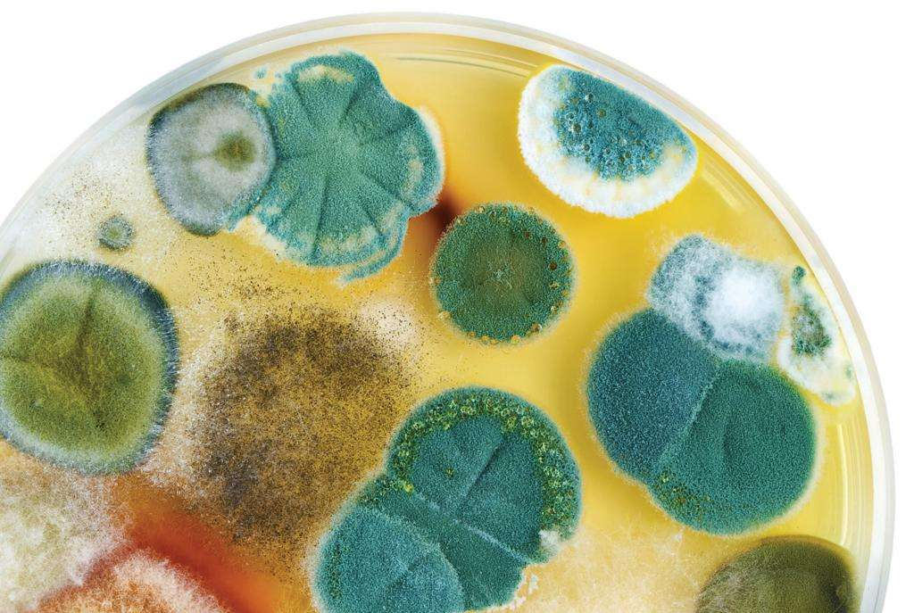 Mold is an unusual fungus that can be seen in detail only under a microscope, but their overgrown colonies are visible to the naked eye.